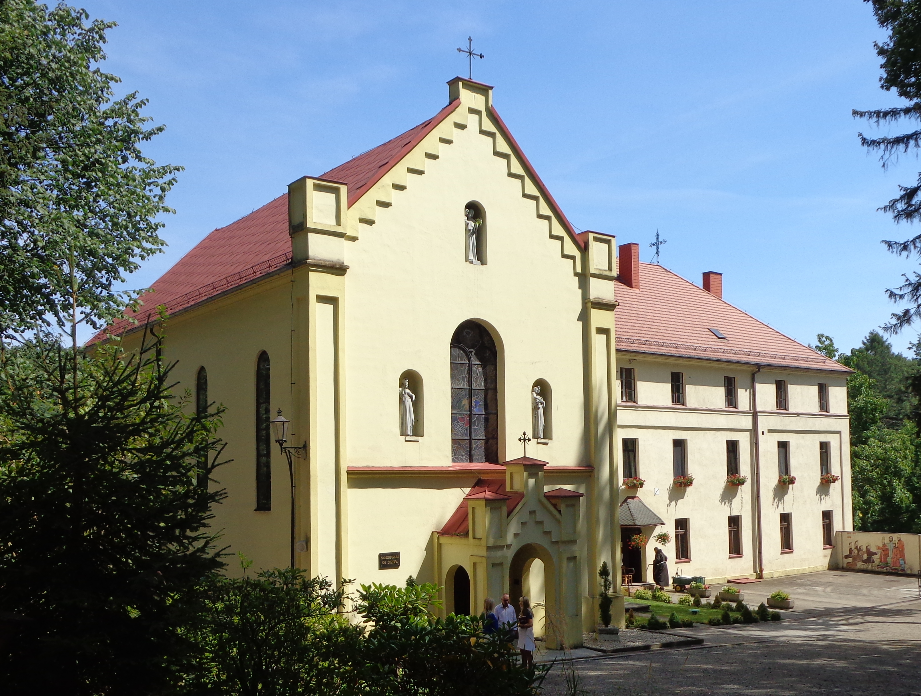 Saint Joseph church in Prudnik.